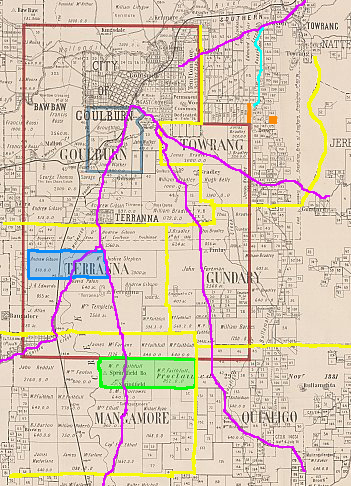 This map has been updated. Please go to